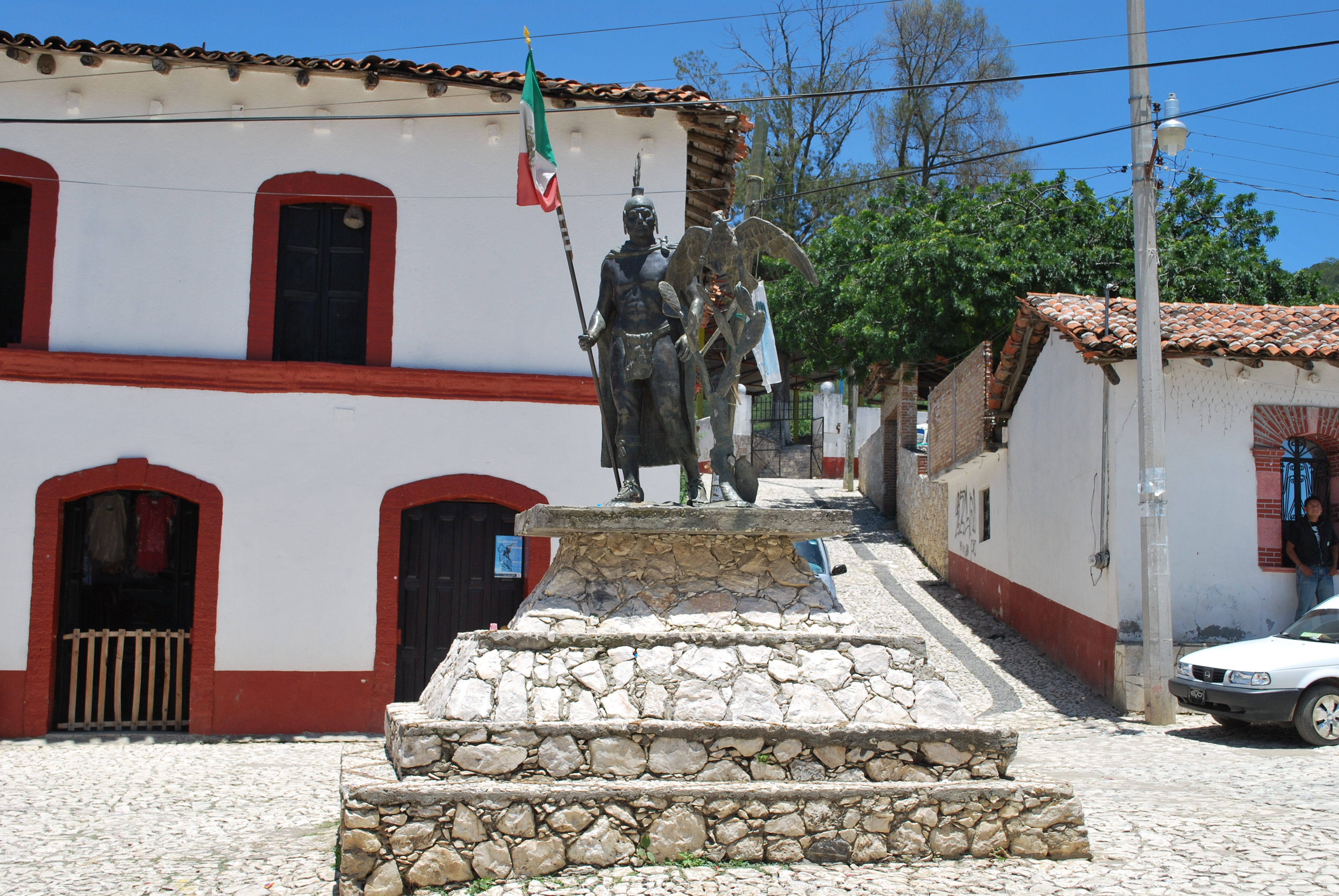 Monument to Cuauhtemoc by unknown author in a small plaza in Ixcateopan, Guerrero, Mexico